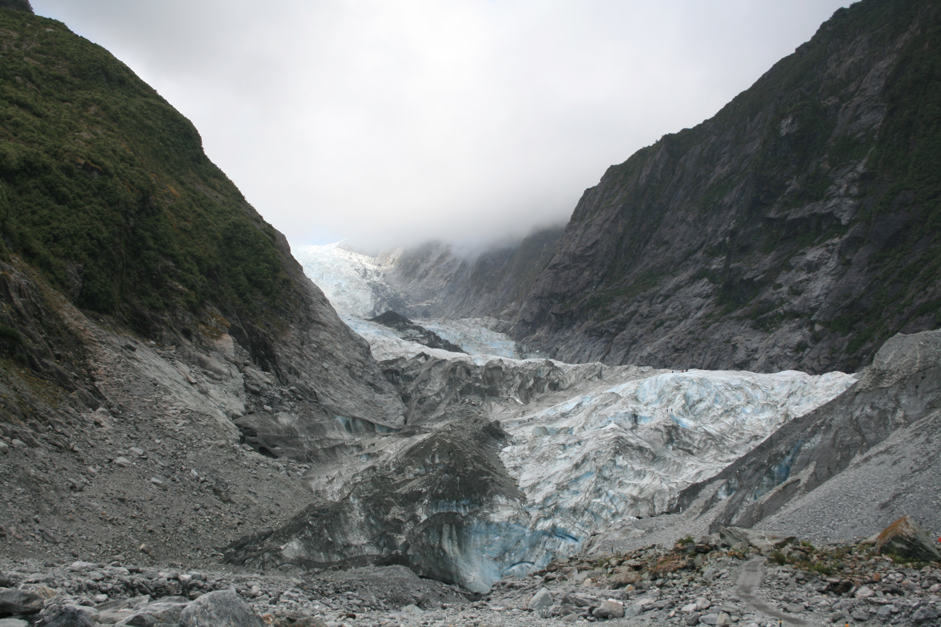 Franz Josef Glacier, New Zealand